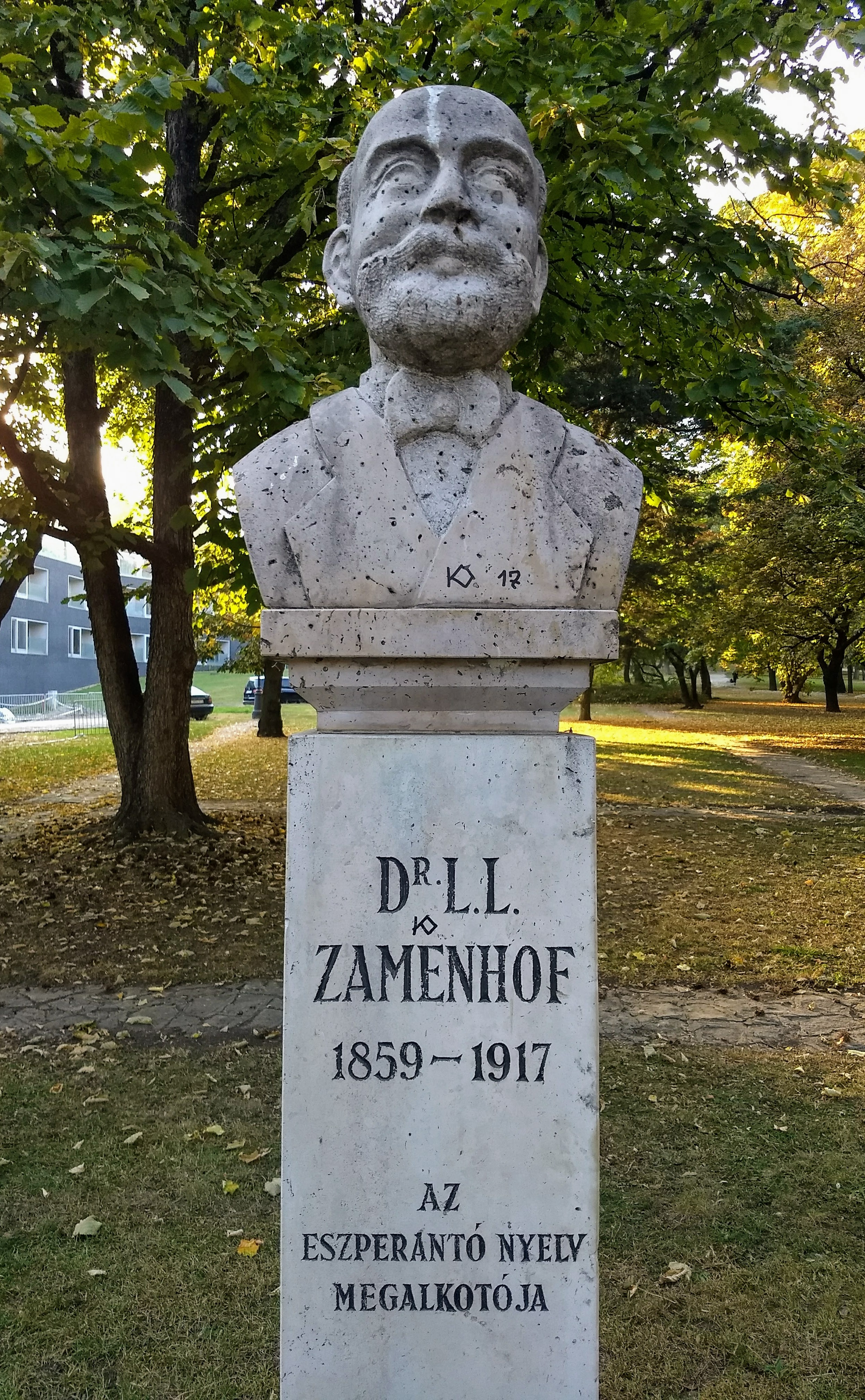 The bust of L. L. Zamenhof by Péter Berecz (1999). Limestone bust on a rectangular pillar. Inscription: Dr. L. L./Zamenhof/1859-1917/Inventor of the Esperanto language. Location: Hadnagy utca, Tabán Park, Budapest District I., Hungary.